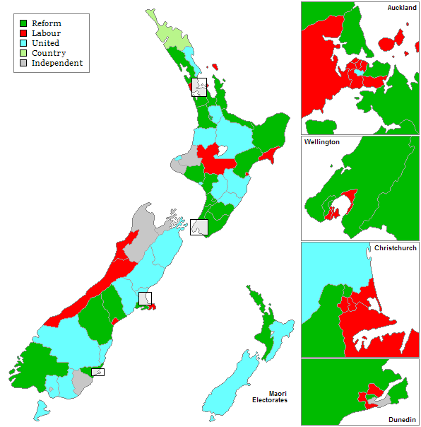 Map of New Zealand's 1935 elections.